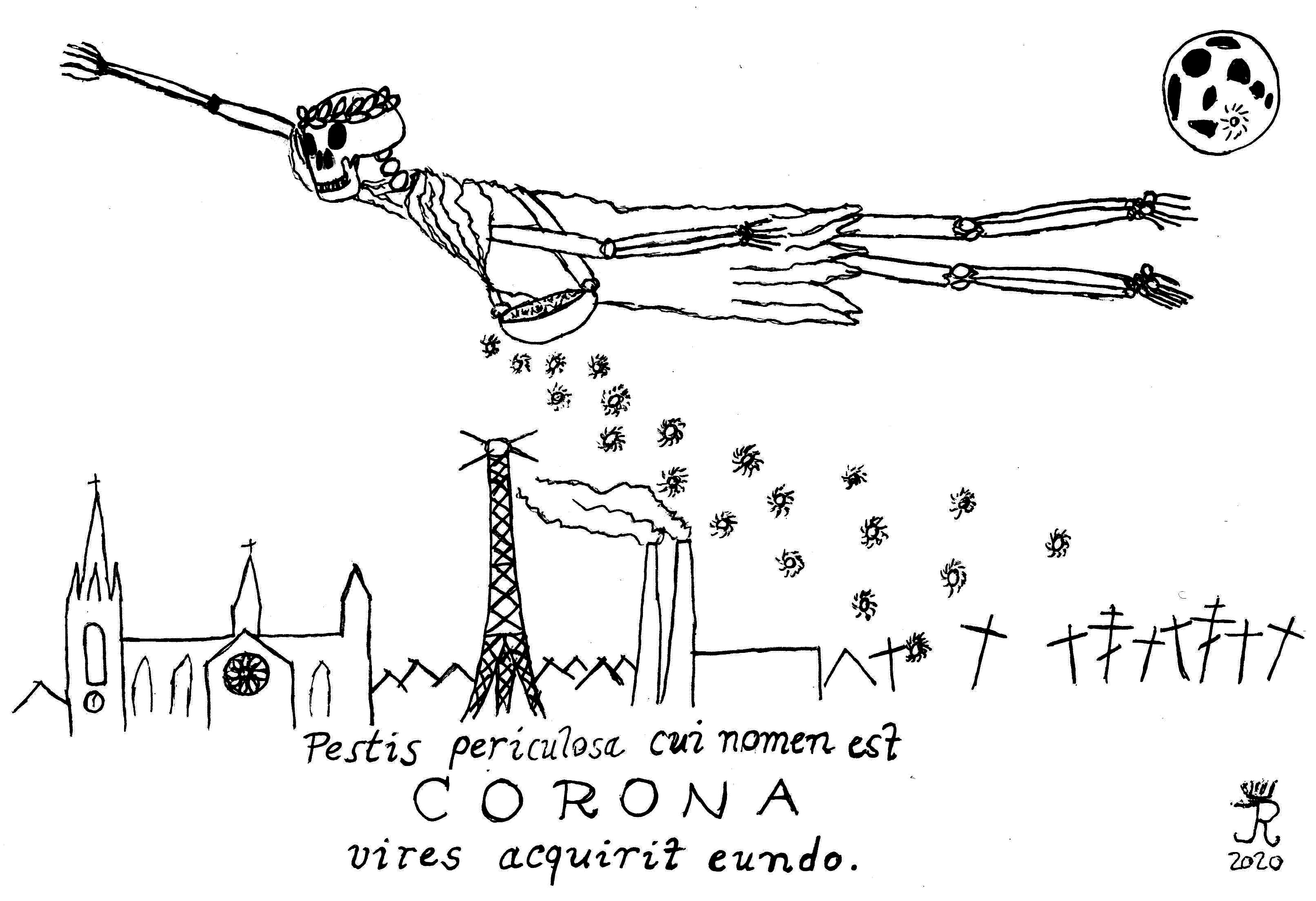 Cartoon depicting the Covid 19 pandemy. The Latin title reads as follows: "A dangerous plague named CORONA gets more powerful, as it spreads."